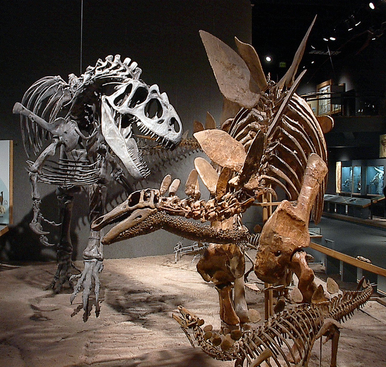 Fossils of a stegosaur (Stegosaurus stenops, DMNH 2249), and its babies being attacked by an allosaur (Allosaurus fragilis, DMNH 1483) at the Denver Museum of Science and Nature.